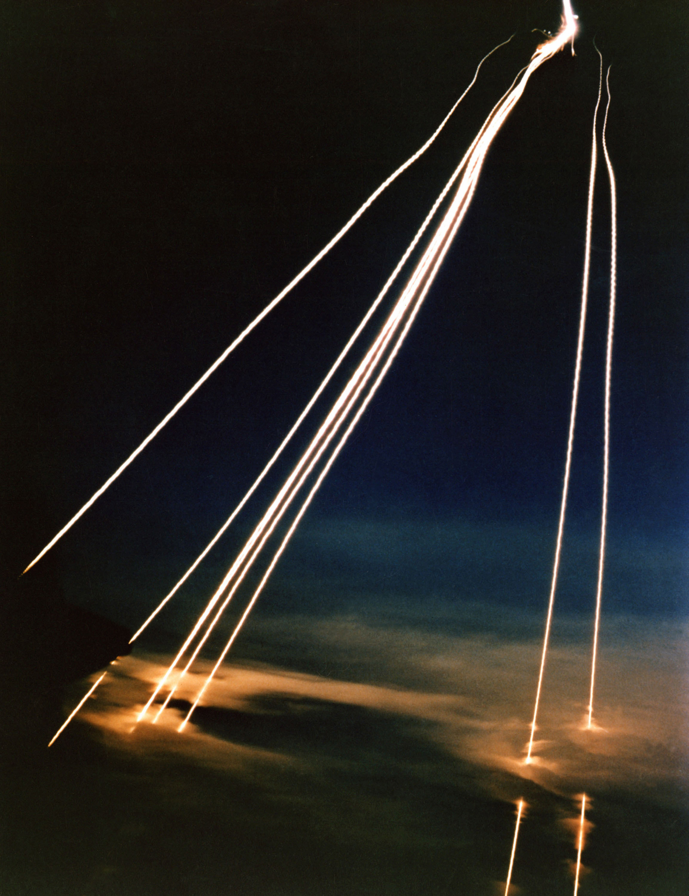 Peacekeepers: FILE PHOTO -- A time exposure of eight intercontinental ballistic missile reentry vehicles passing through clouds while approaching an open-ocean impact zone during a flight test. (U.S. Air Force photo)